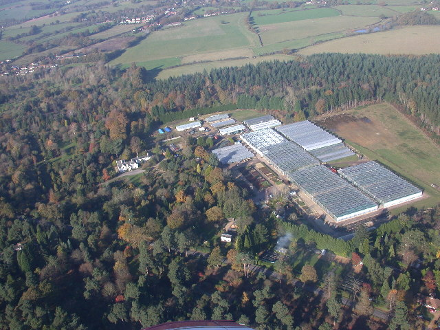 Jermyns House, Sir Harold Hillier Arboretum. Looking North showing propagation unit on right and village of Braishfield in distance